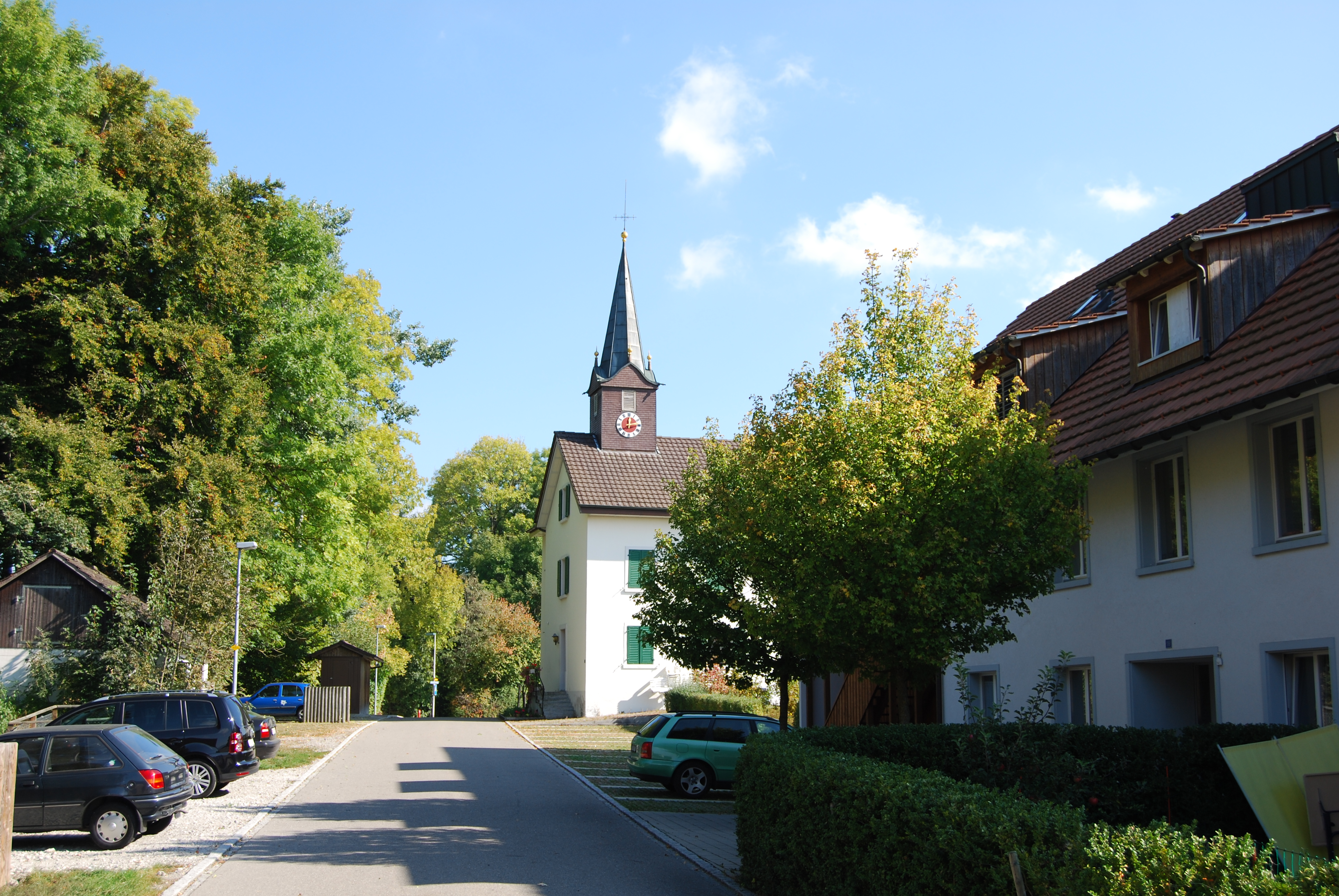 Arni, canton of Aargau, SwitzerlandEsperanto: Arni, Kantono Argovio, Svislando